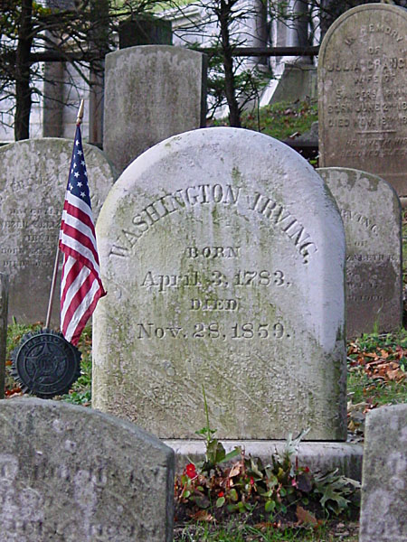 Washington Irving's grave in Sleepy Hollow, New York.